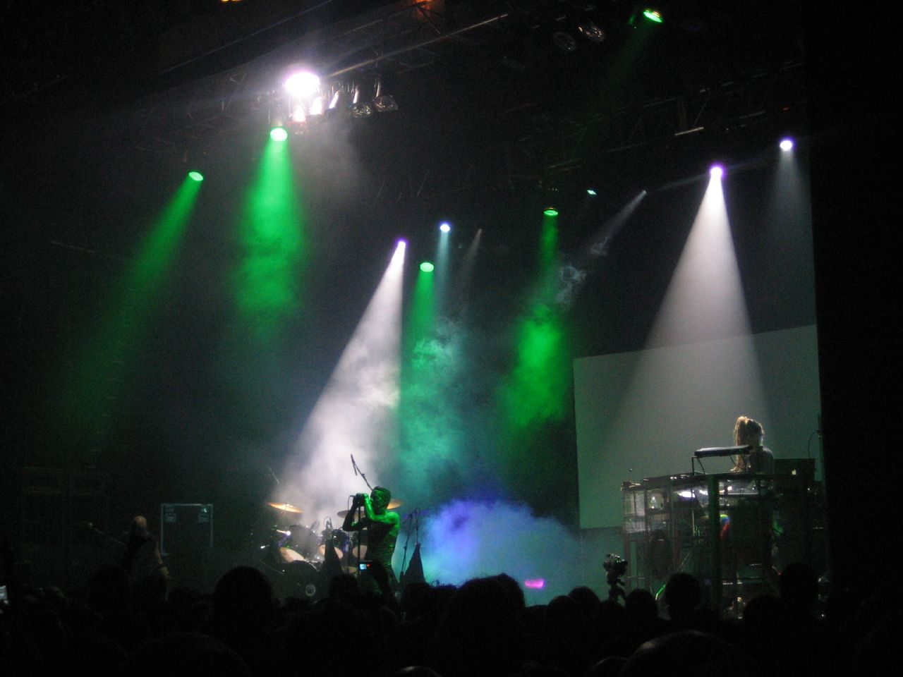 Skinny Puppy performing live at the London Astoria